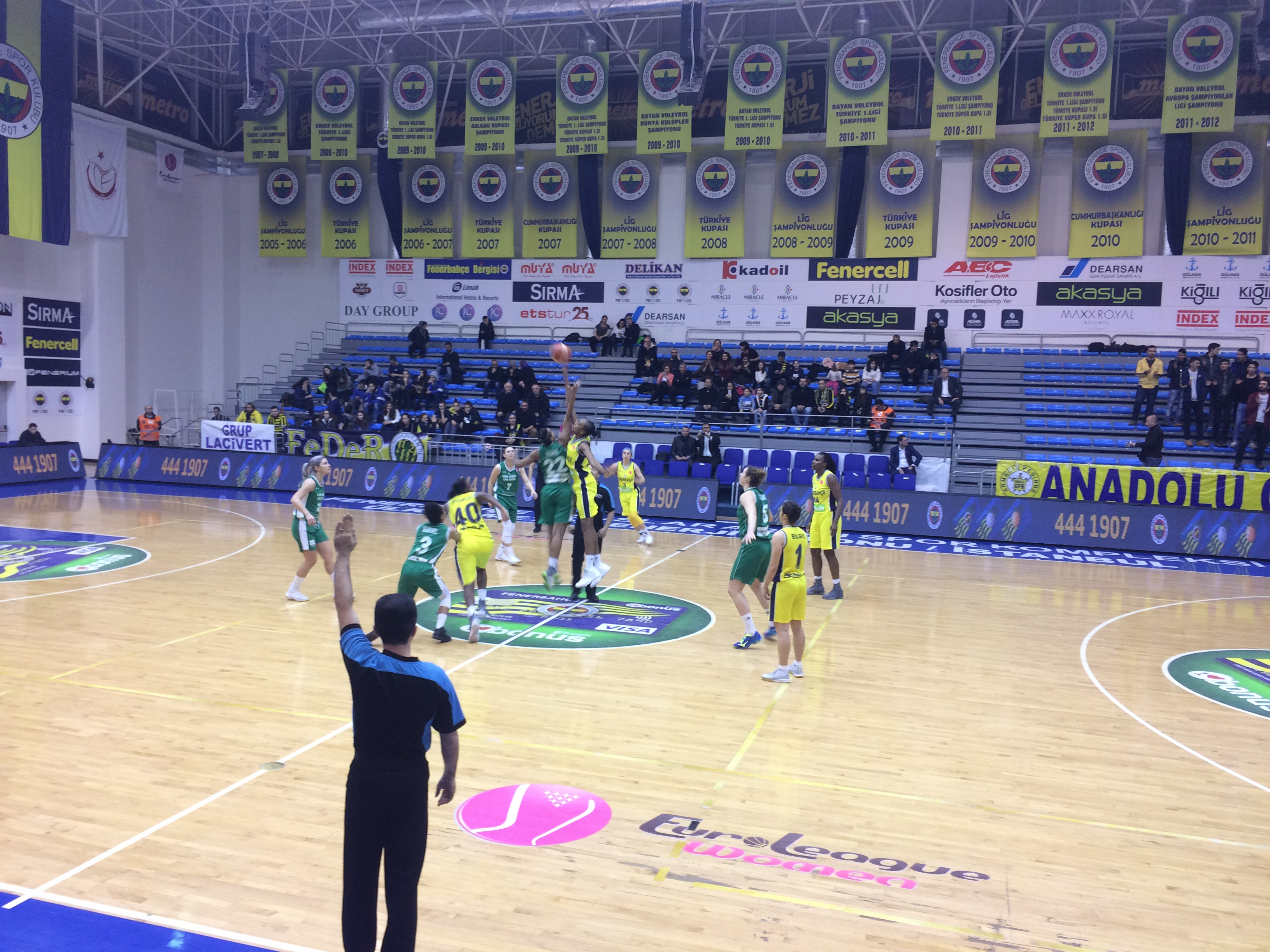 Fenerbahçe Women's Basketball vs Uni Györ Euroleague Women 20170125